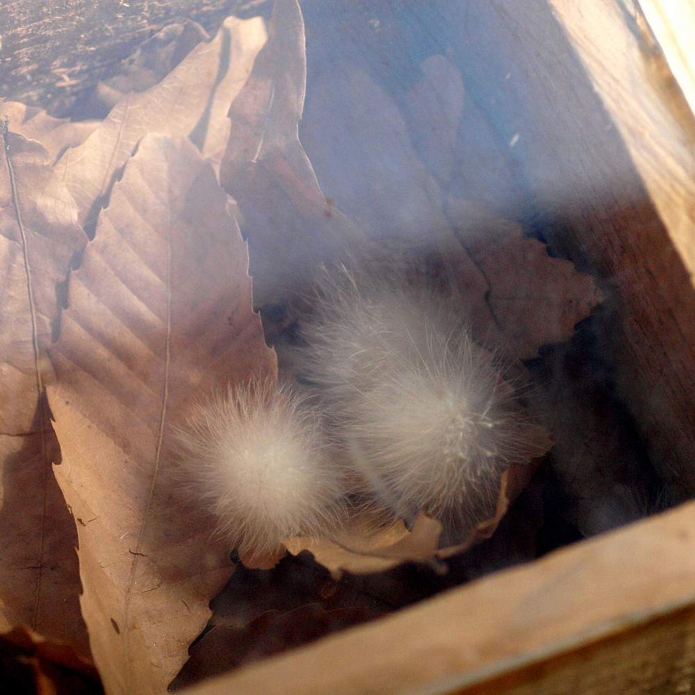 ケセランパサラン Keseranpasaran is a Japanese legendary creature. Location: Himeji City Zoo, Japan Copyright: User:OpenCage